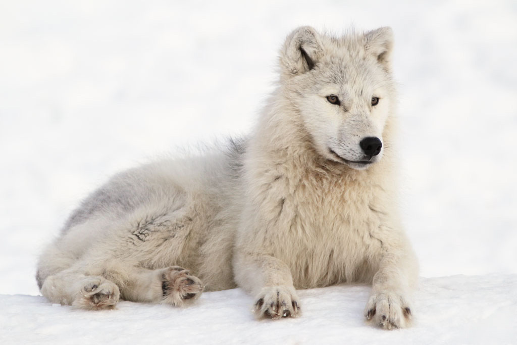 Arctic wolf in Montebello, Québec, Canada.